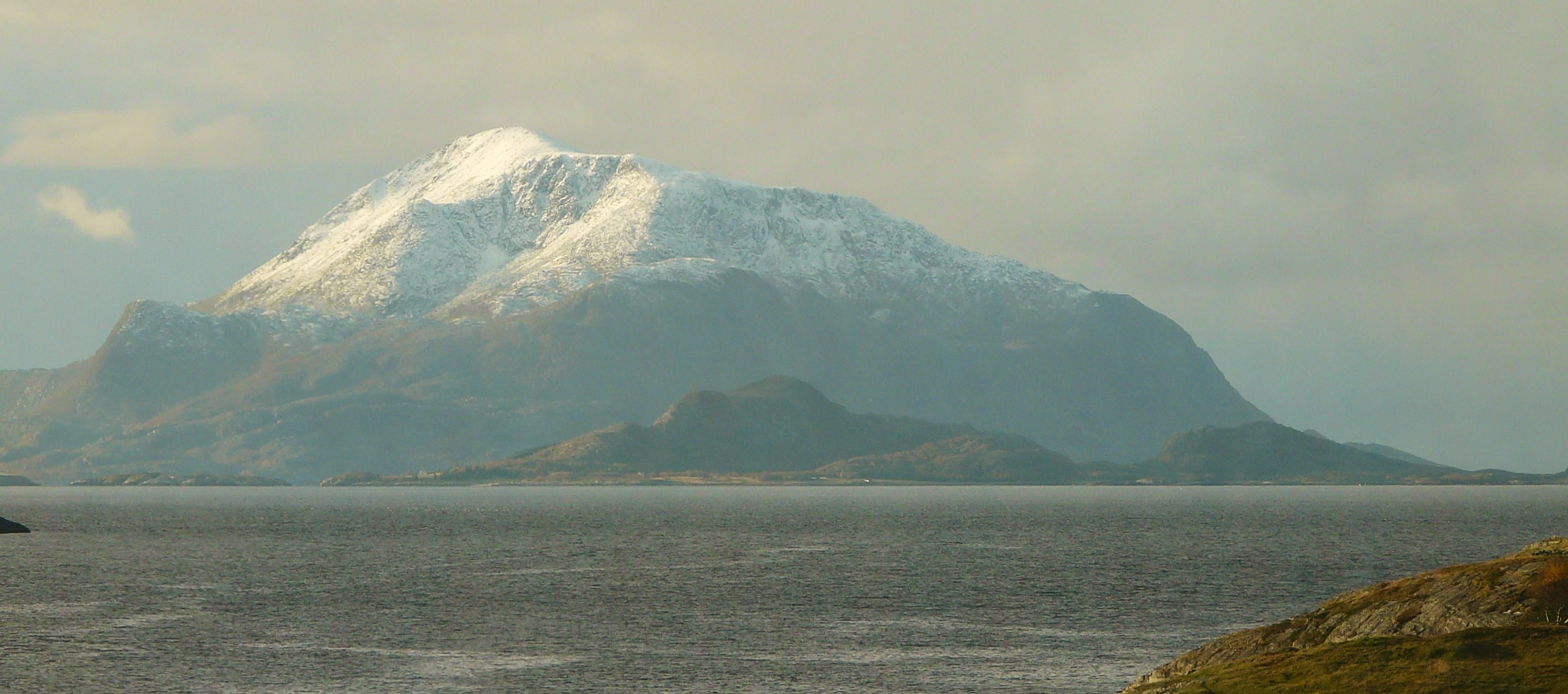 Lurøyfjellet (685 m) as seen from the northeast from a Hurtigruten ship (M/S Polarlys) in 2009 October.